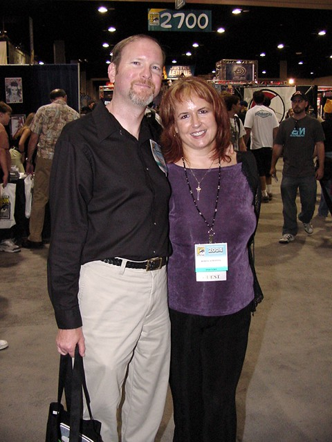 Kevin J. Anderson and Rebecca Moesta at Comic Con International, 2004.